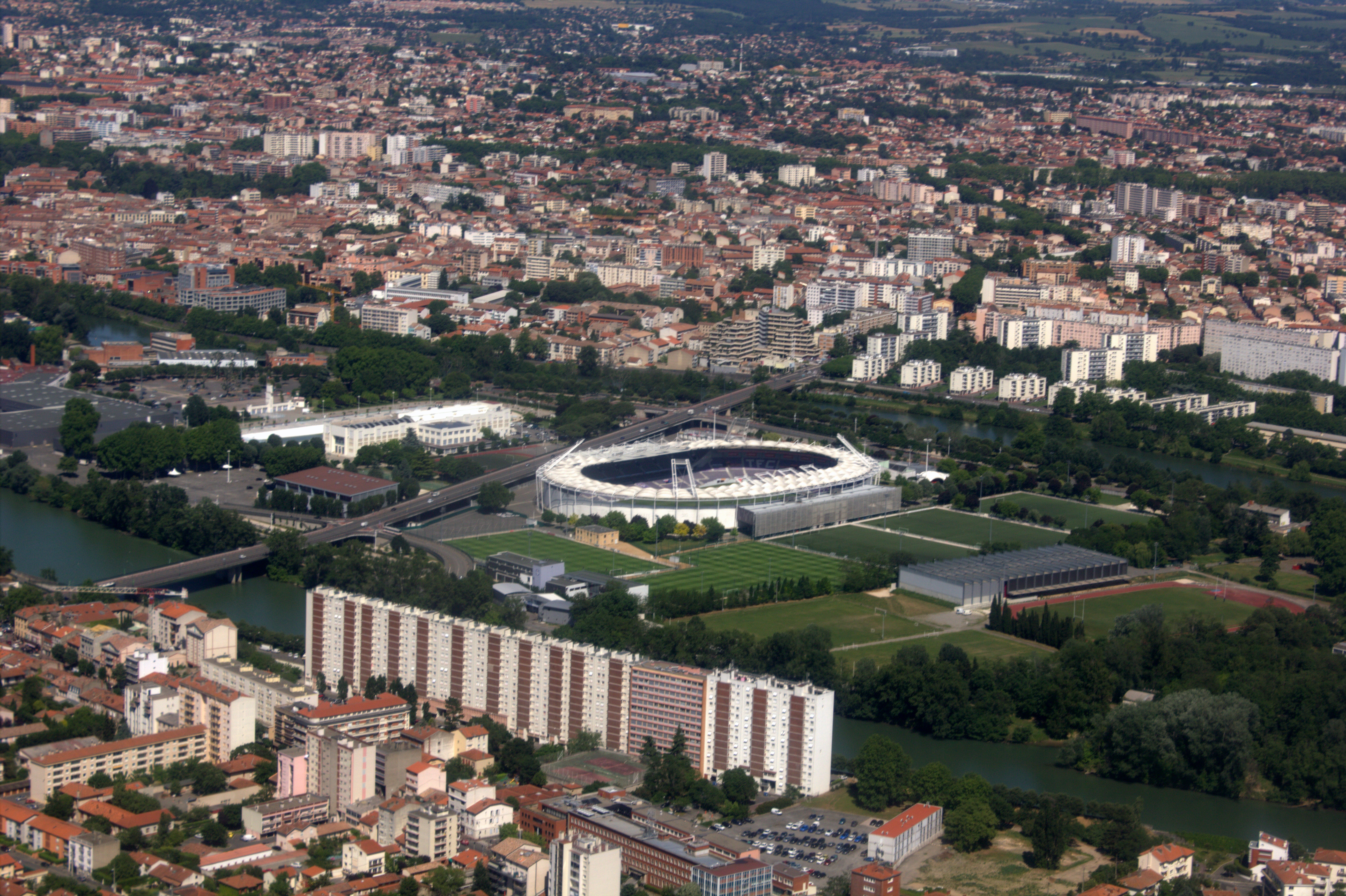 Aerial view of Île du Ramier in Toulouse.